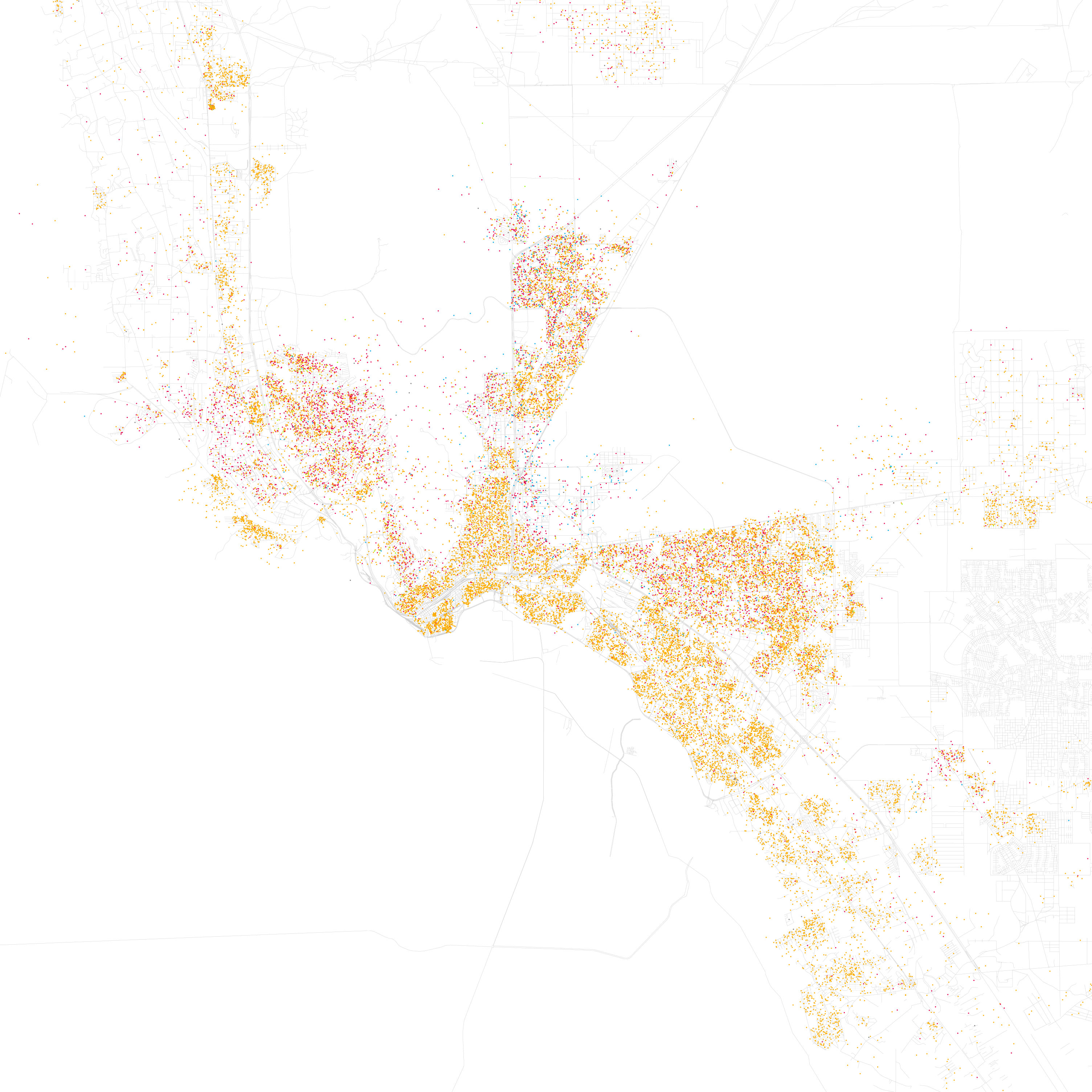 [Eric Fisher was astounded by Bill Rankin's map of Chicago's racial and ethnic divides and wanted to see what other cities looked like mapped the same way. To match his map, Red is White, Blue is Black, Green is Asian, Orange is Hispanic, Gray is Other, and each dot is 25 people. Data from Census 2000. Base map © OpenStreetMap, CC-BY-SA